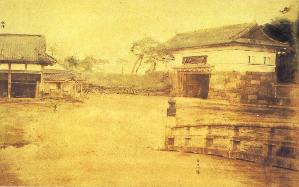 Hitotsubashi-mon